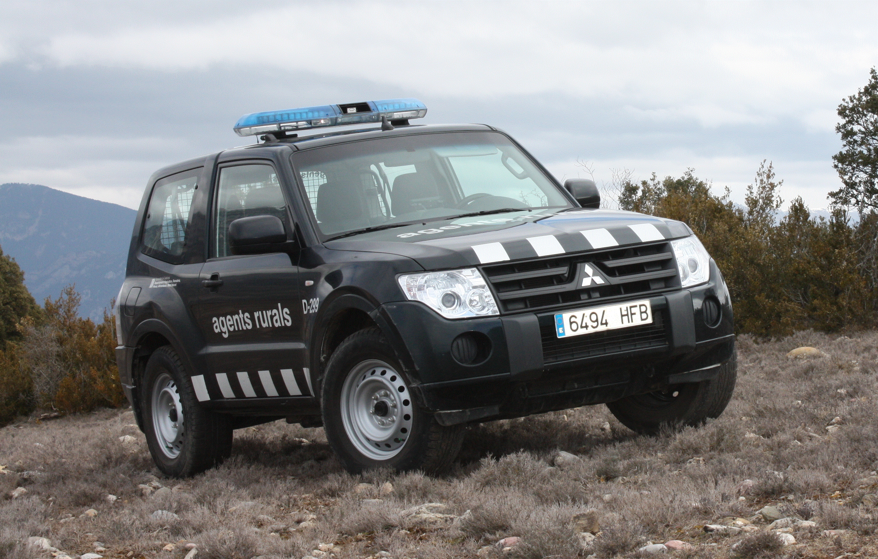 ATV Ranger Corps of the Government of Catalonia